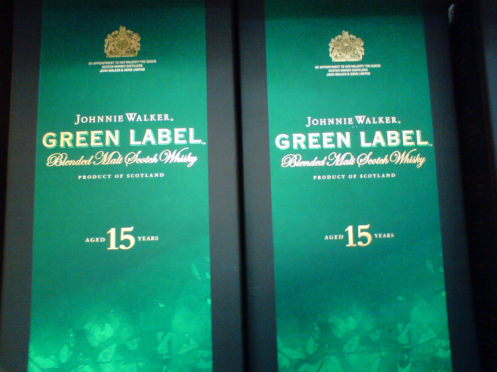 Johnnie Walker Green Label (15 years Scotch Whisky) boxes.